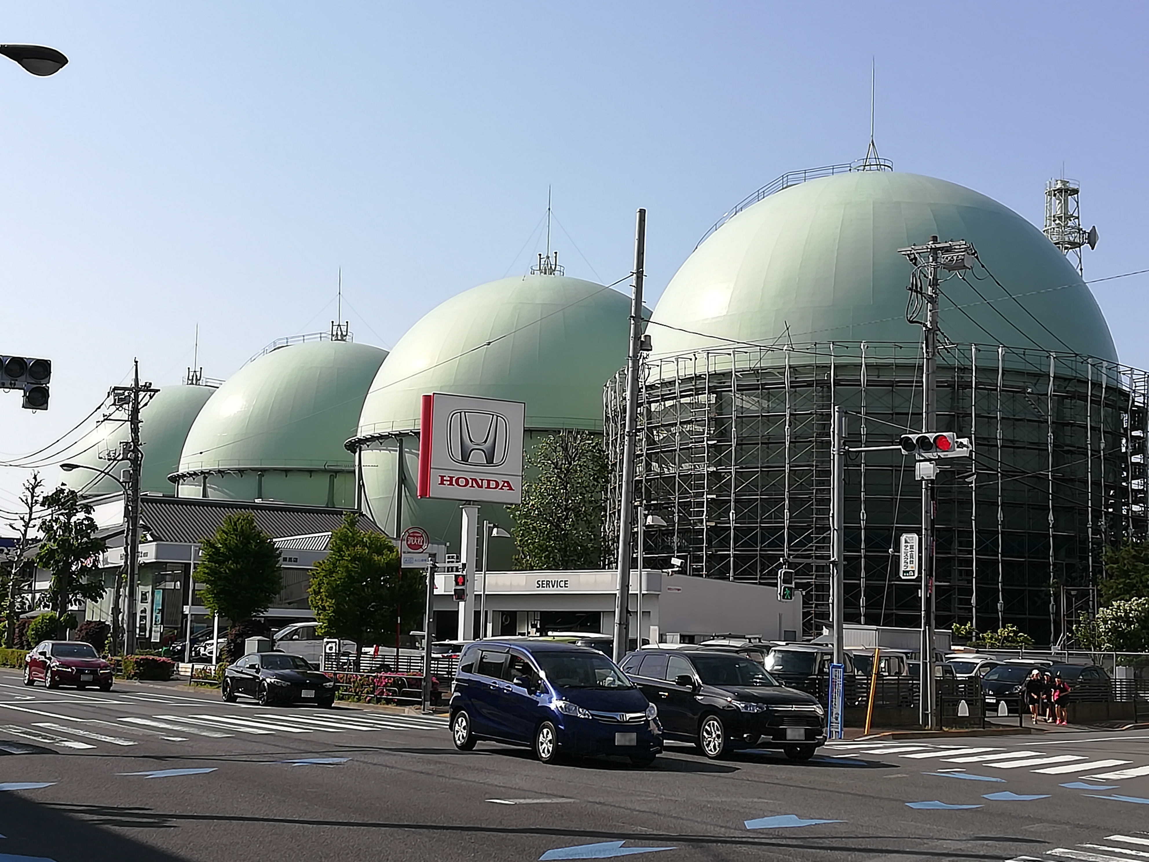 Gas holders in Yawara, Nerima Ward, Tokyo.